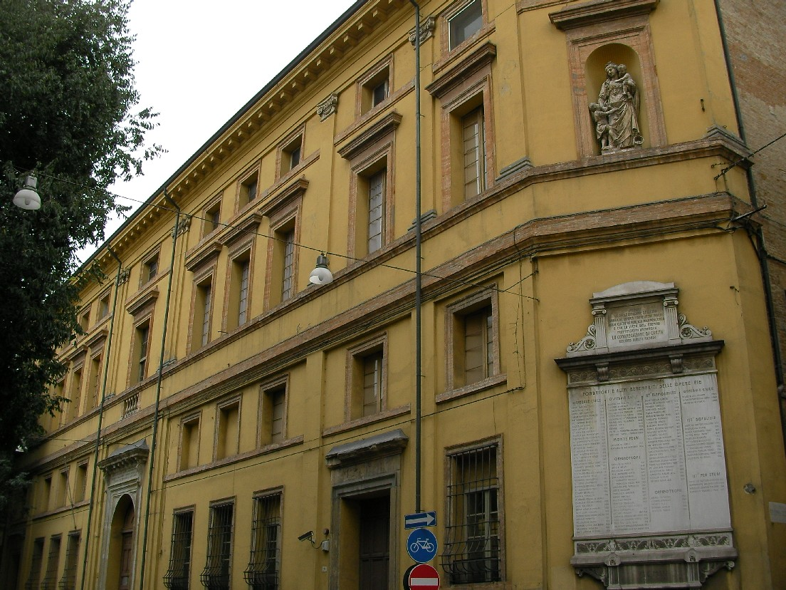 Palazzo del Merenda o dell'Antico Ospedale of Forlì